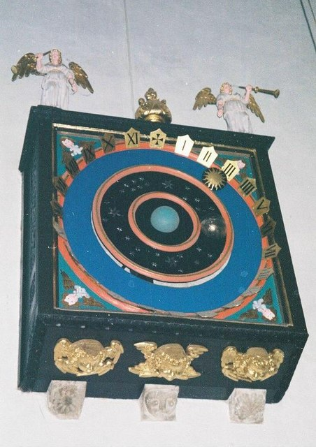 Wimborne Minster: the astronomical clock This clock is made up of 17th-century components, and is in the tower of the 513820.